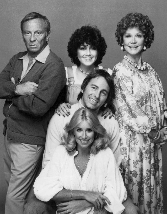 Cast photo of the television program Three's Company as it began its second season in September 1977. Standing, from left: Norman Fell (Stanley Roper), Joyce DeWitt (Janet Wood), Audra Lindley (Helen Roper). Seated: John Ritter (Jack Tripper), Suzanne Somers (Chrissy Snow).